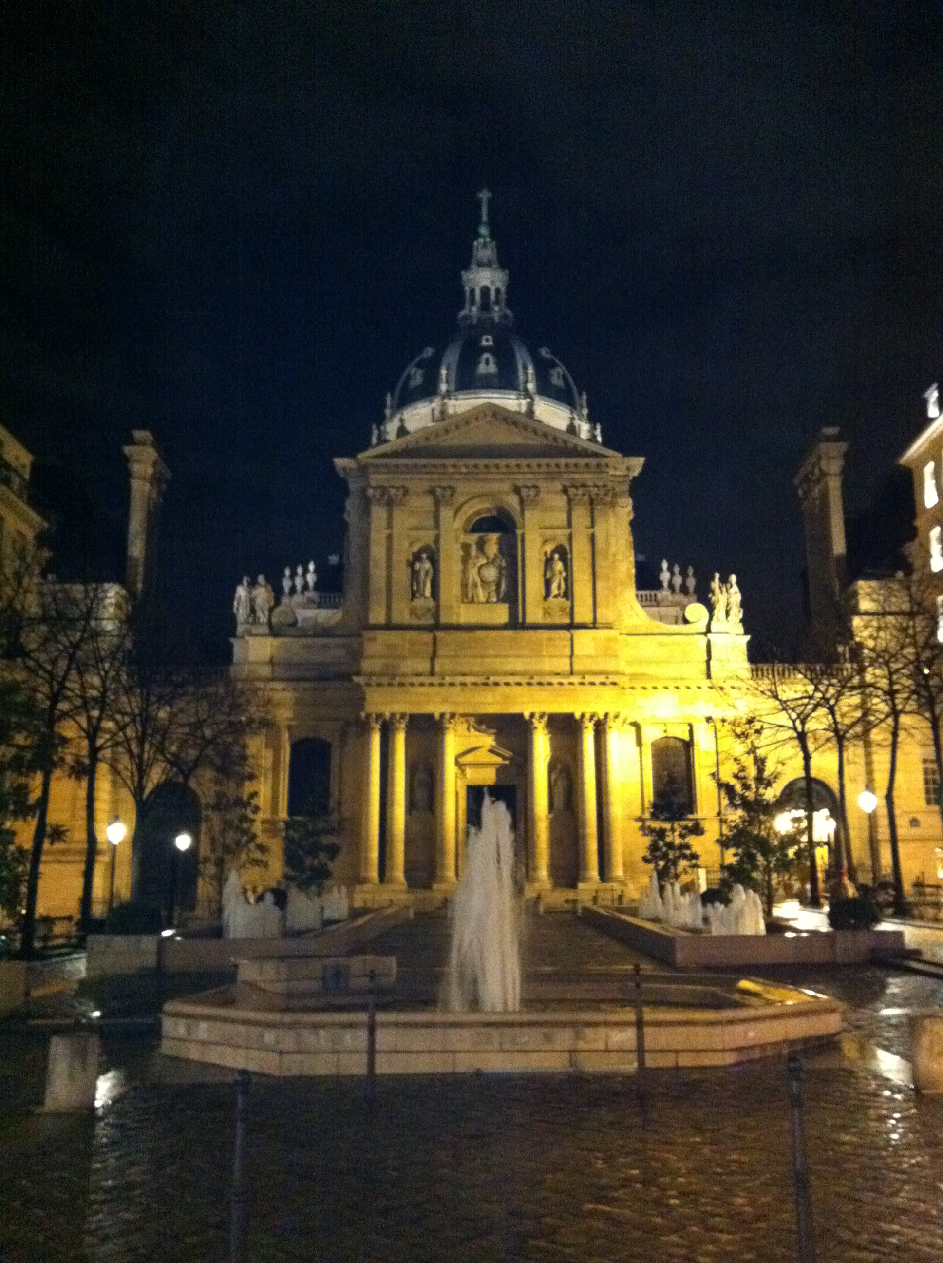 Sorbonne night